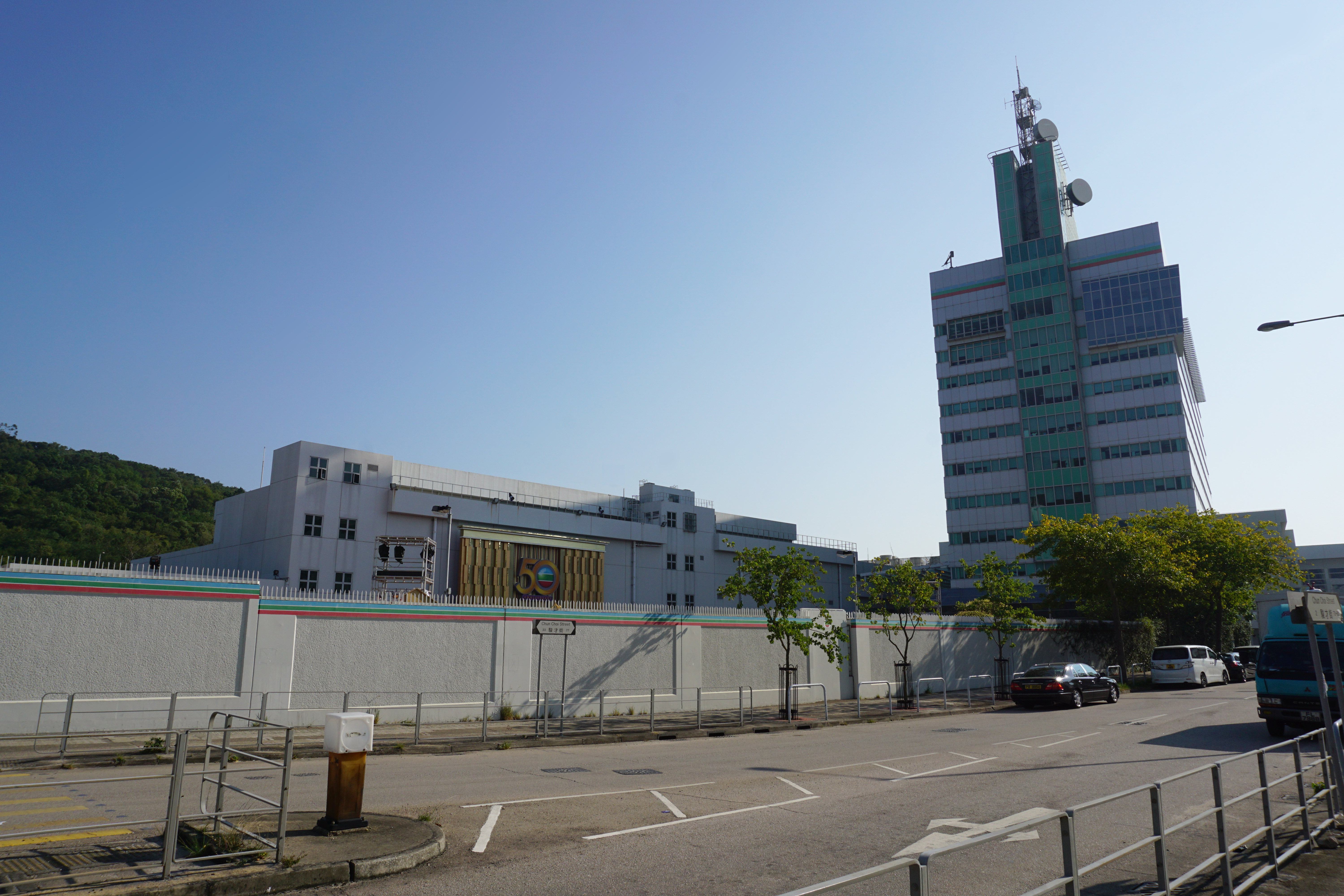 TVB City in Fat Tong Chau, Hong Kong.